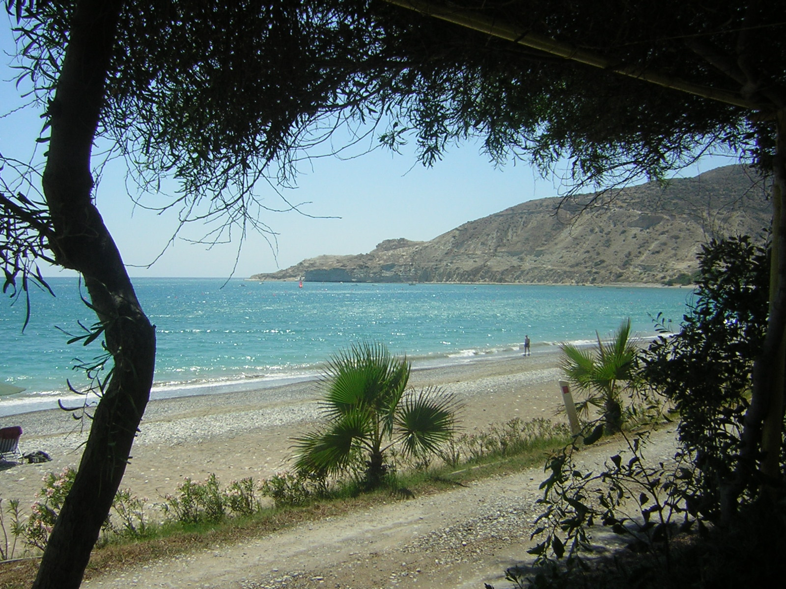 View from the kebab house